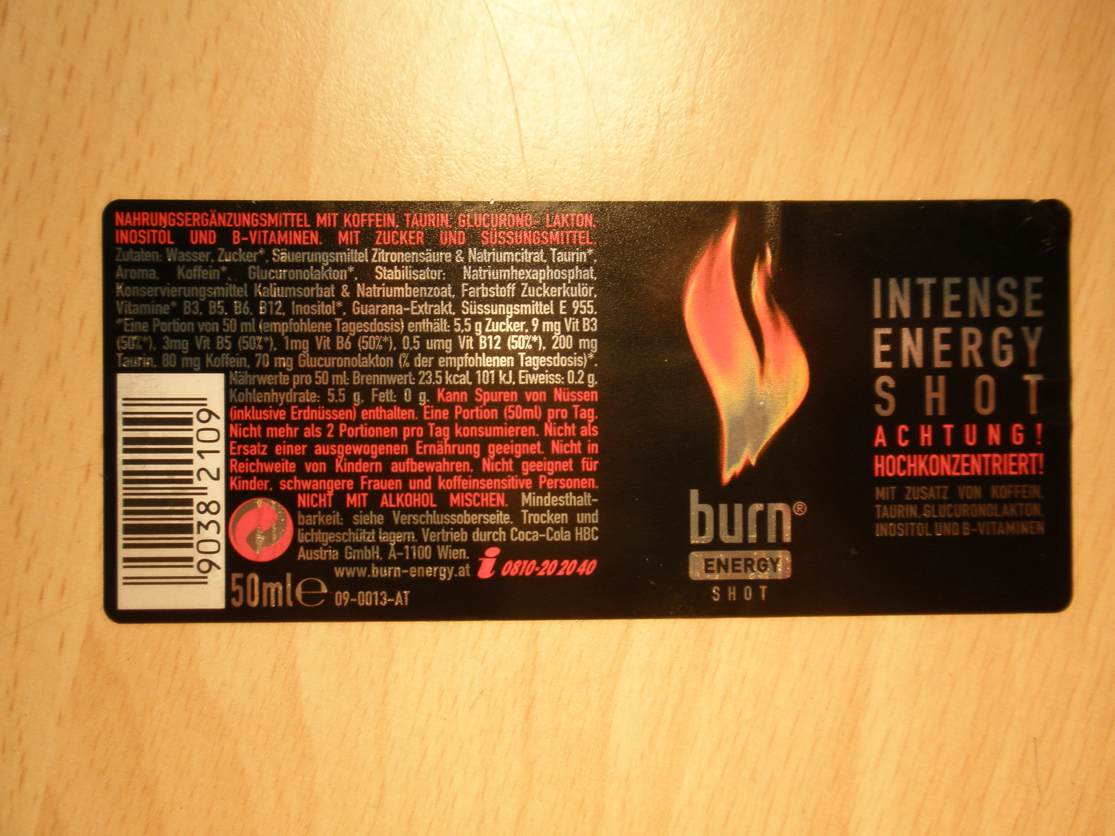 burn Energy Shot, Label of 50ml bottle